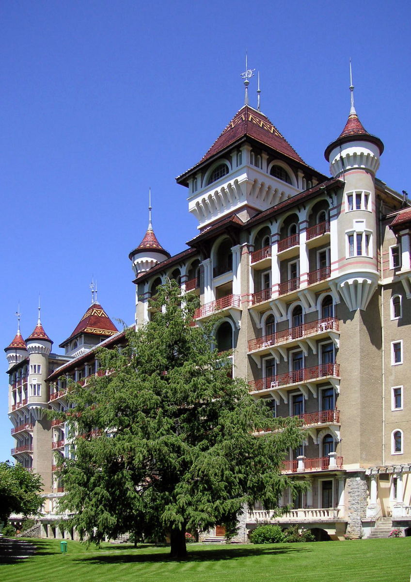 Caux Palace Hotel , architecture